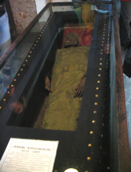 Sarcophagus and body of Jeremi Wiśniowiecki in the monastery on Święty Krzyż mountain near Kielce, Poland. Authenticity of the body is disputable, see: Jan Widacki, Kniaź Jarema, Wydawnictwo Śląsk, Katowice 1984.